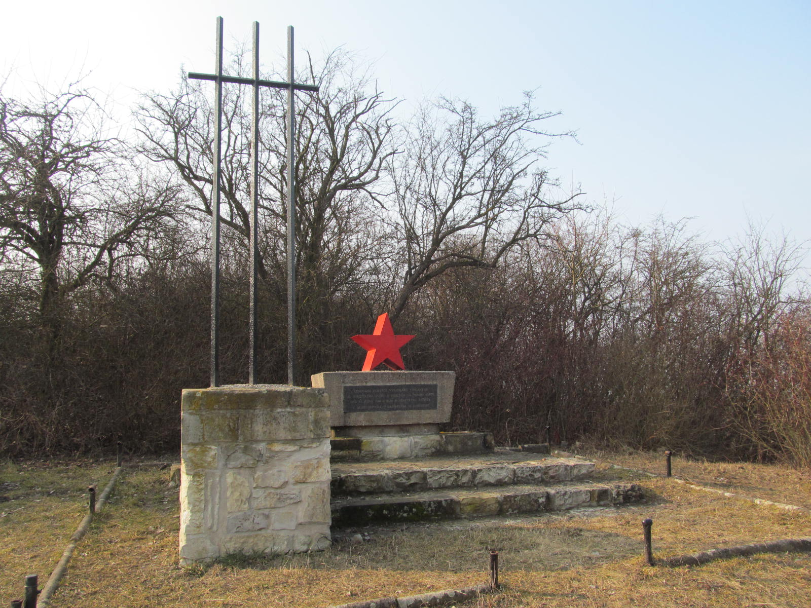 Memorial of sowiet paratroopers from 1944 near Louny